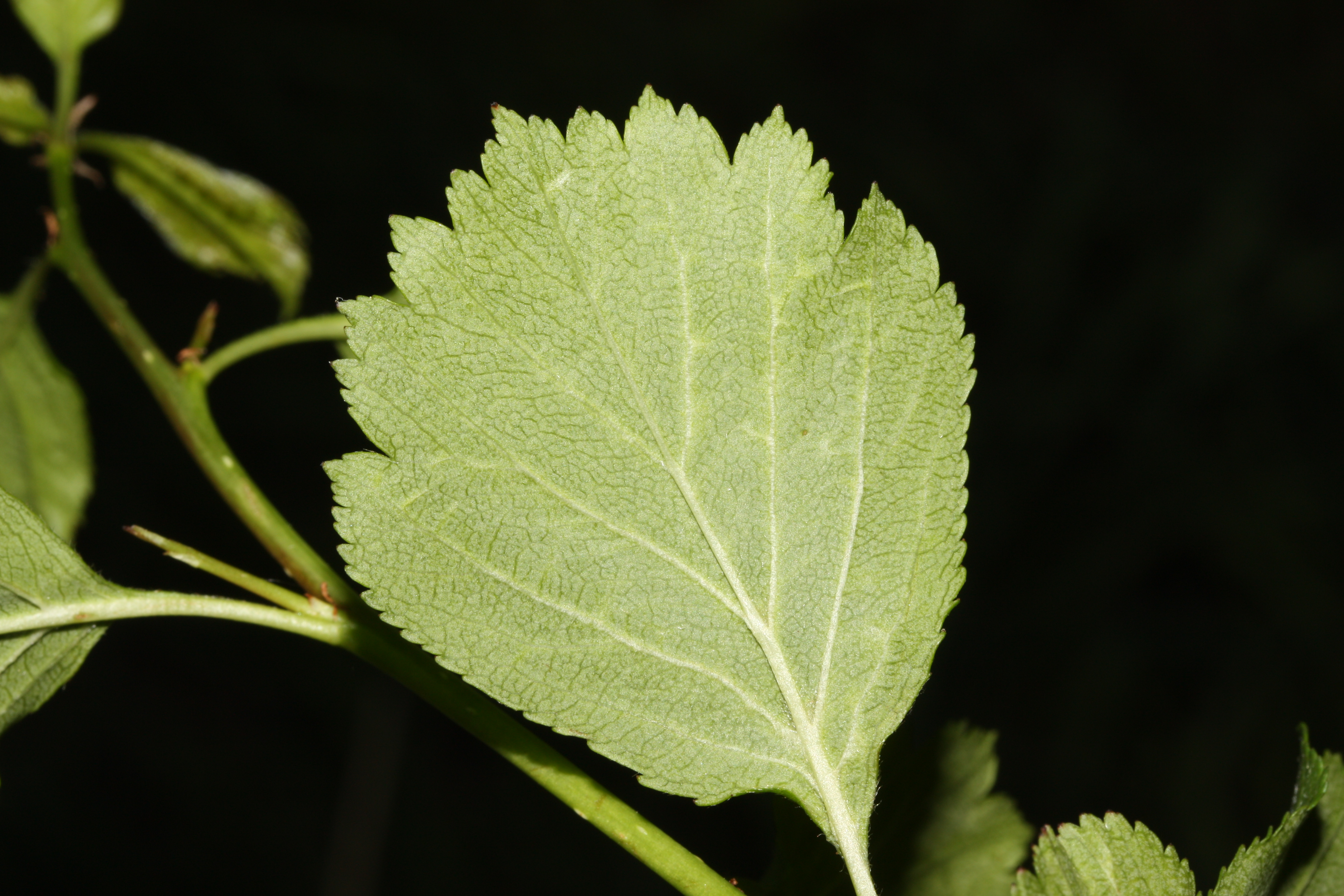 Black Hawthorn, Douglas' Hawthorn